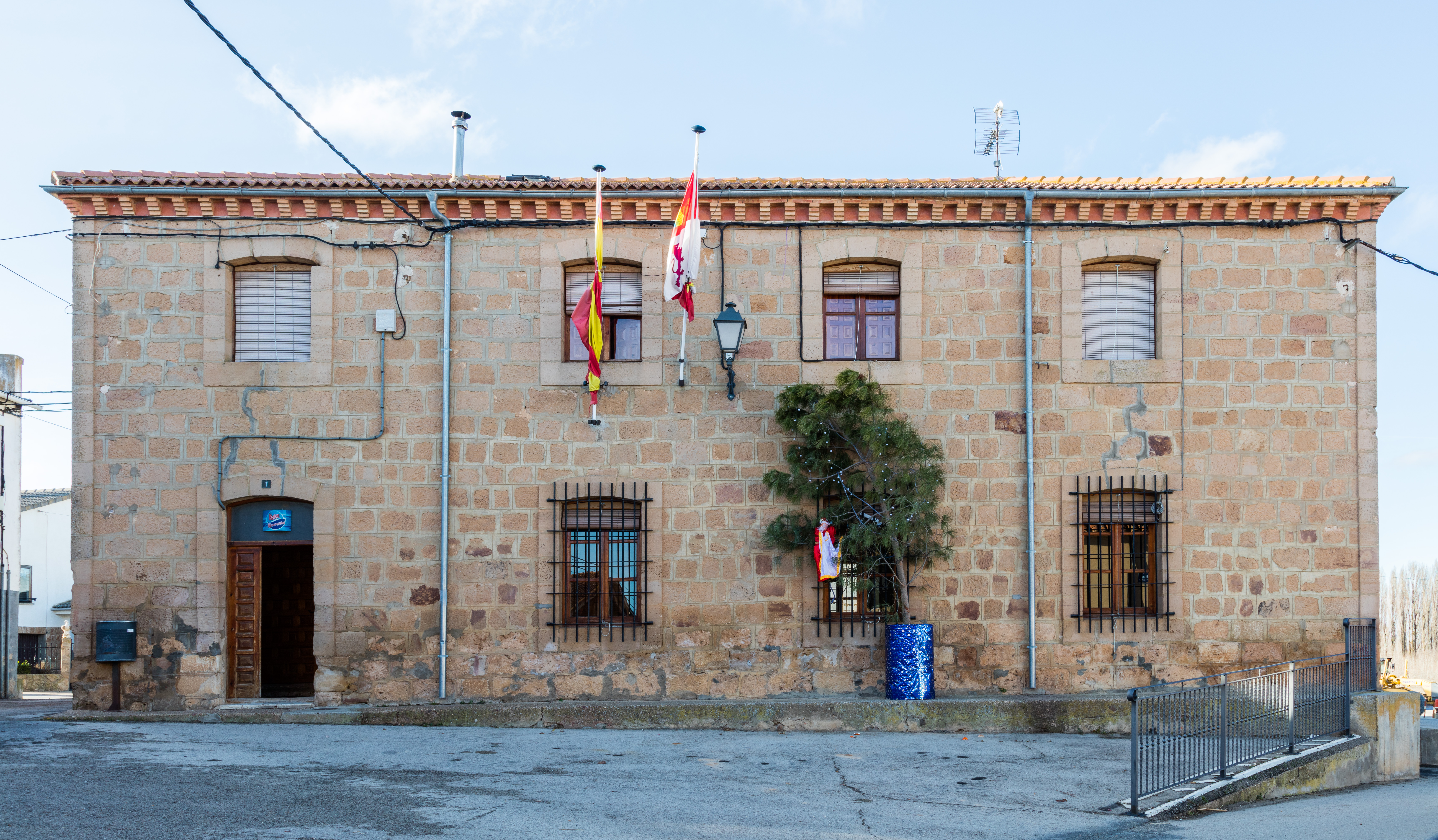 Town hall, Coscurita, Soria, Spain